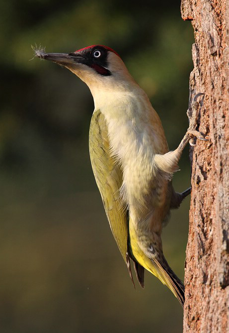 Green Woodpecker (Picus viridis)